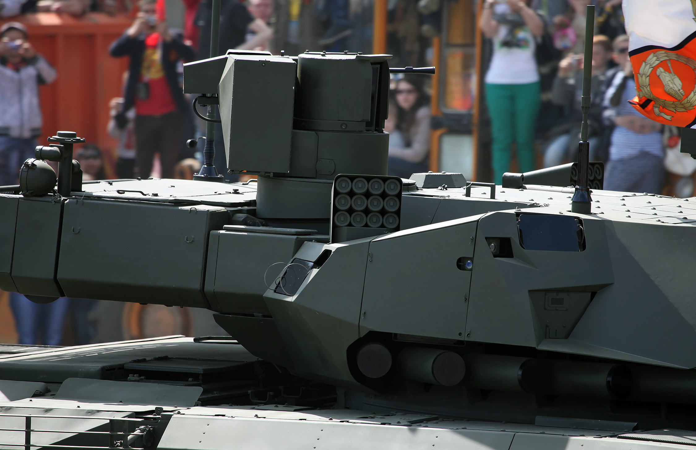 Main battle tank T-14 object 148 Armata (in the streets of Moscow on the way to or from the Red Square)